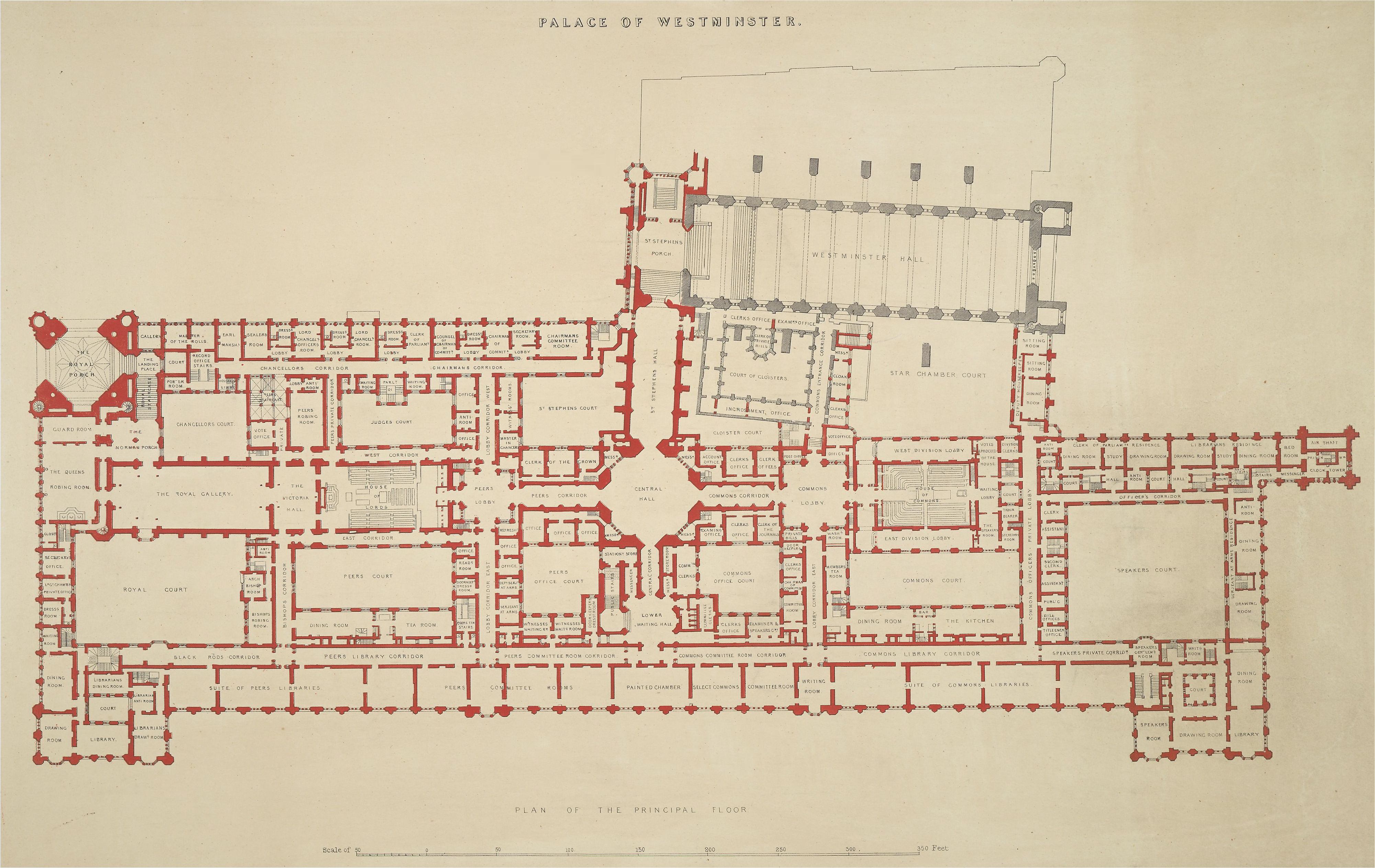 Plan of the principal floor of the Palace of Westminster in London, from the collection of architectural drawings formed by Frederick Crace (died 1859), now in the possession of the British Library.